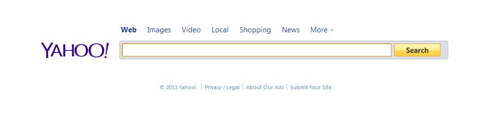 search bar for Yahoo!